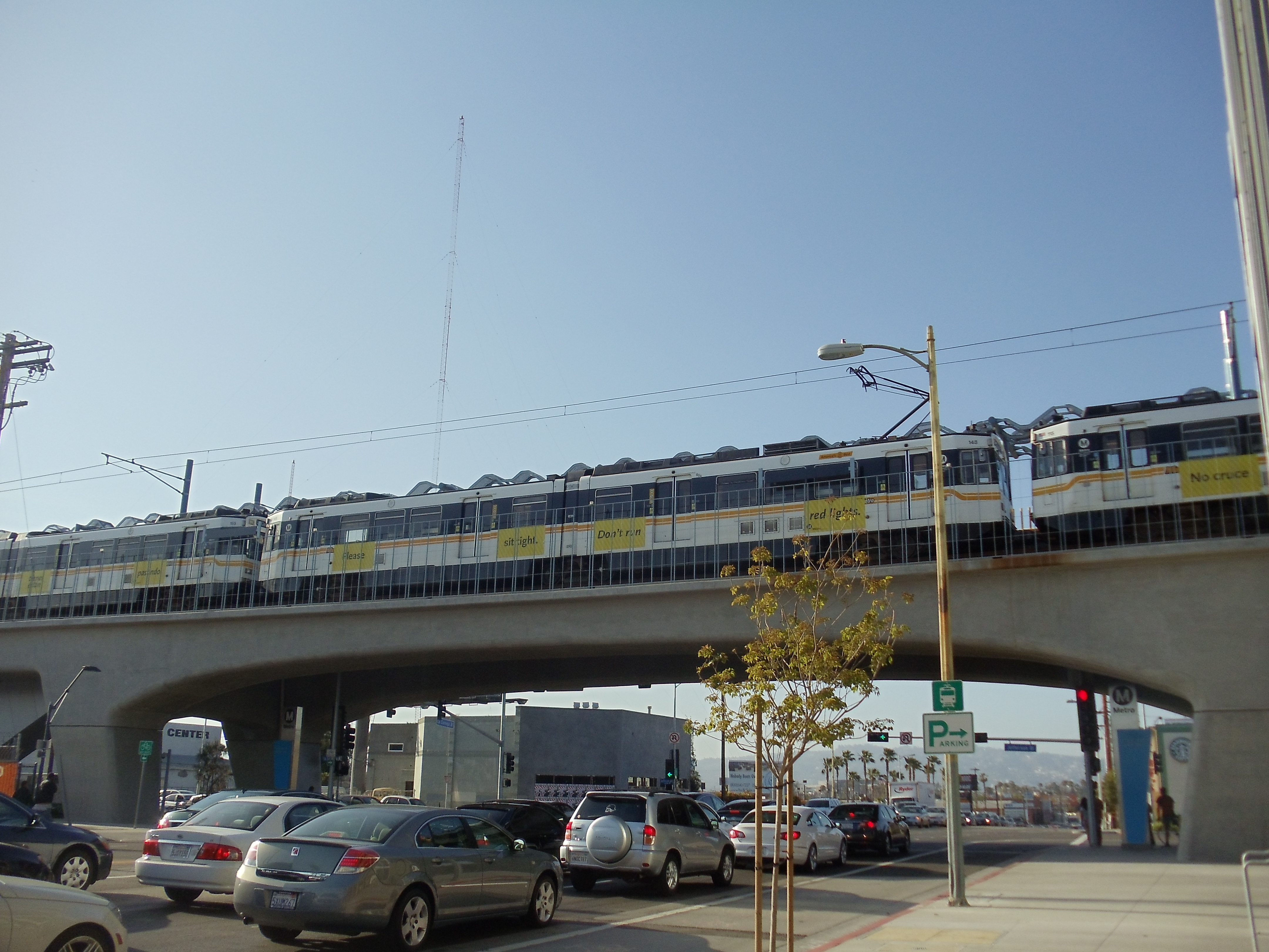 La Cienega Expo Line Station.